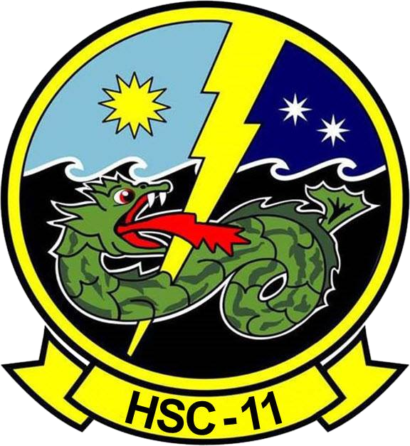 Patch of the U.S. Navy Helicopter Sea Combat Squadron 11 (HSC-11) "Dragonslayers".